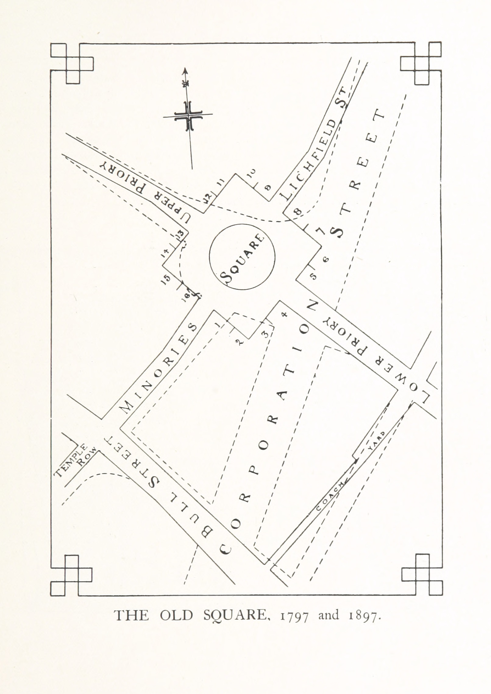 Image extracted from page 151 of Memorials of the Old Square: being some notices of the Priory of St. Thomas in Birmingham ... also of the Square built upon the Priory Close, etc. [With illustrations.] L.P', by HILL, Joseph - of Birmingham, and DENT (Robert Kirkup). Original held and digitised by the British Library. Copied from Flickr. Note: The colours, contrast and appearance of these illustrations are unlikely to be true to life. They are derived from scanned images that have been enhanced for machine interpretation and have been altered from their originals.